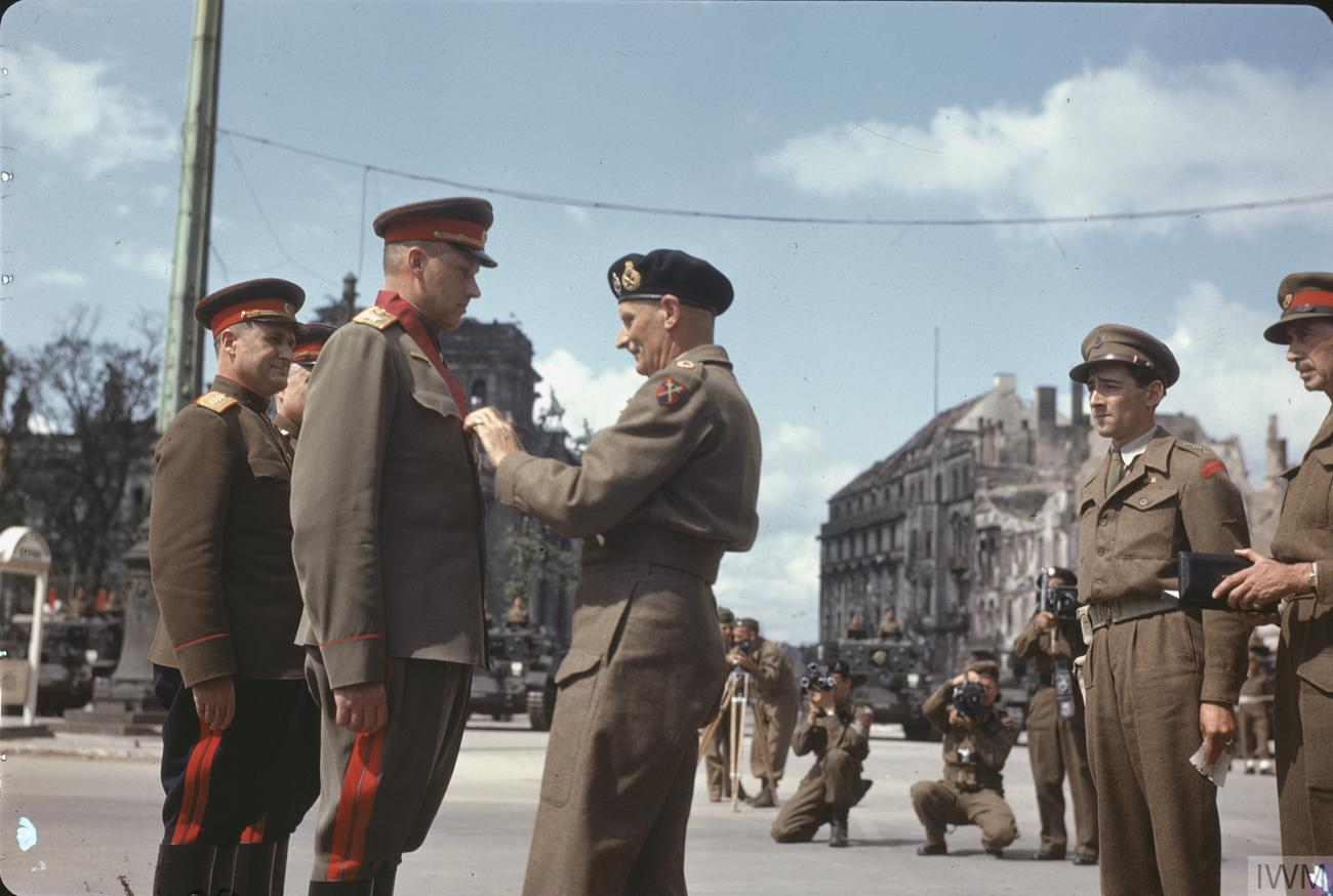 Field Marshal Montgomery Decorates Russian Generals at the Brandenburg Gate in Berlin, Germany, 12 July 1945 The Commander of the 2nd Belorussian Front, Marshal K Rokossovsky is invested as a Knight Commander of the British Empire by the Commander of the 21st Army Group, Field Marshal Sir Bernard Montgomery at the Brandenburg Gate in Berlin. Three other Russian generals were decorated on this occasion including the Deputy Supreme Commander in Chief of the Red Army, Marshal G Zhukov.